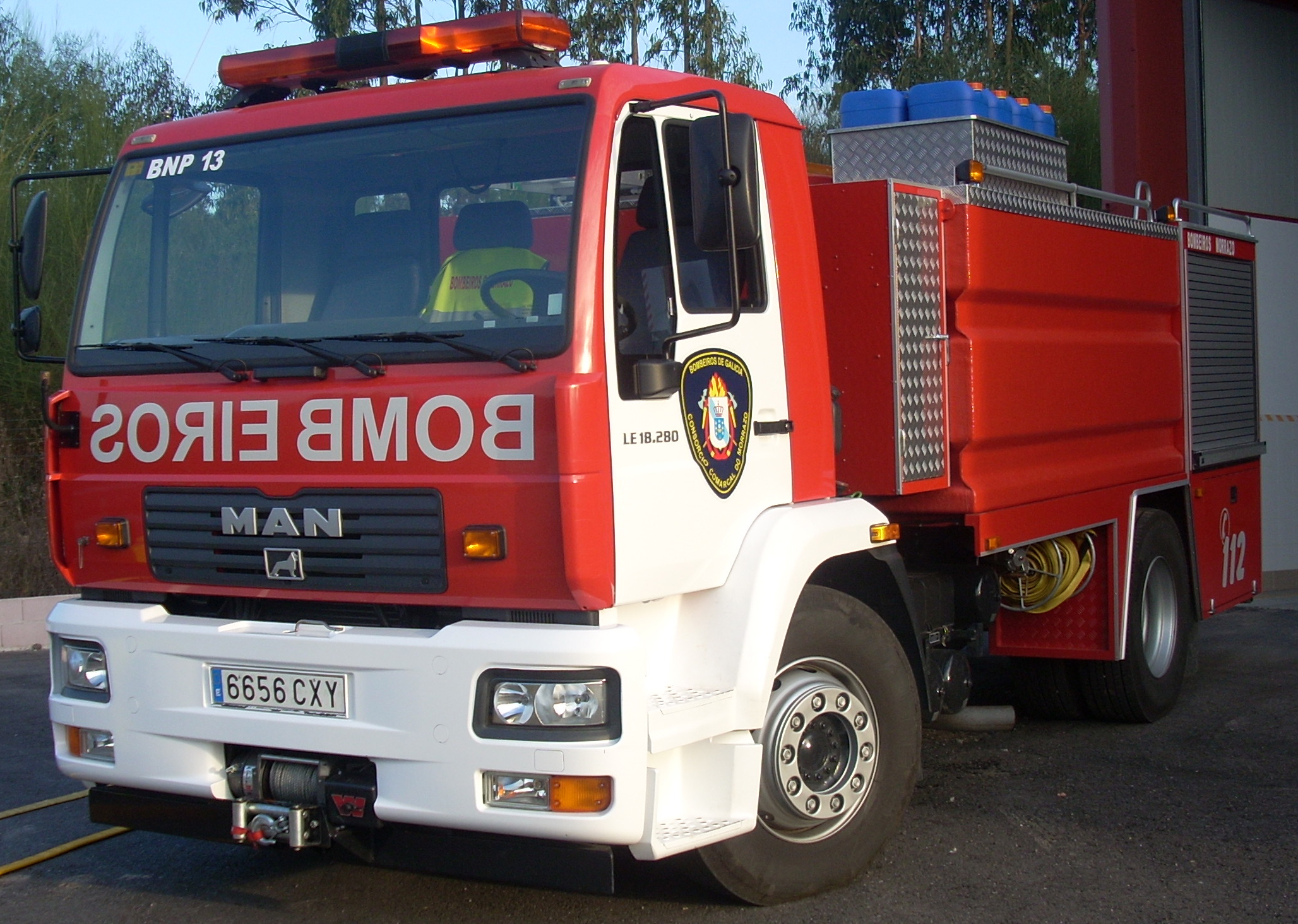 MAN fire engine of the "Consorcio Comarcal Do Morrazo" of the "Bombeiros de Galicia", in Spain, with "BOMBEIROS" in mirror writing ("SORIEBMOB").